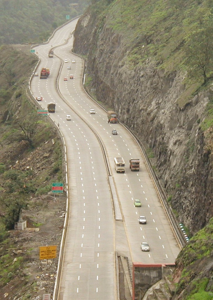 The Mubai Pune Expressway in India